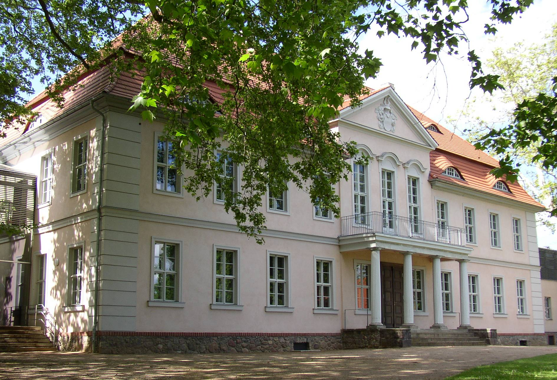 Palace in Schwedt-Criewen in Brandenburg, Germany